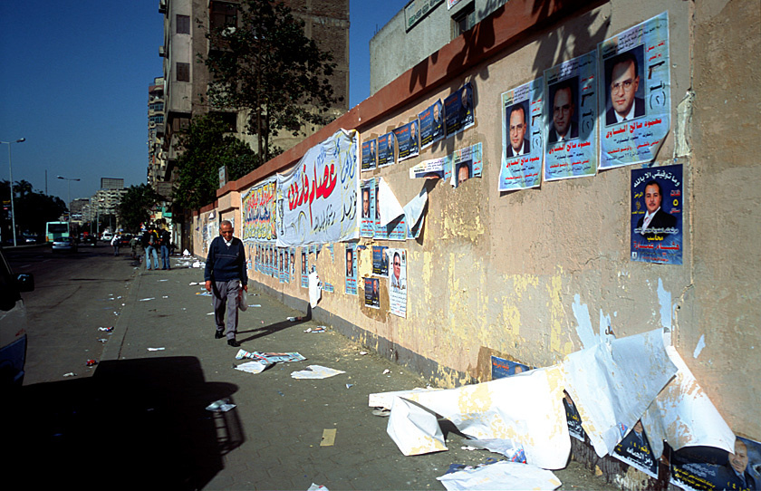 Election posters in Cairo, Egypt